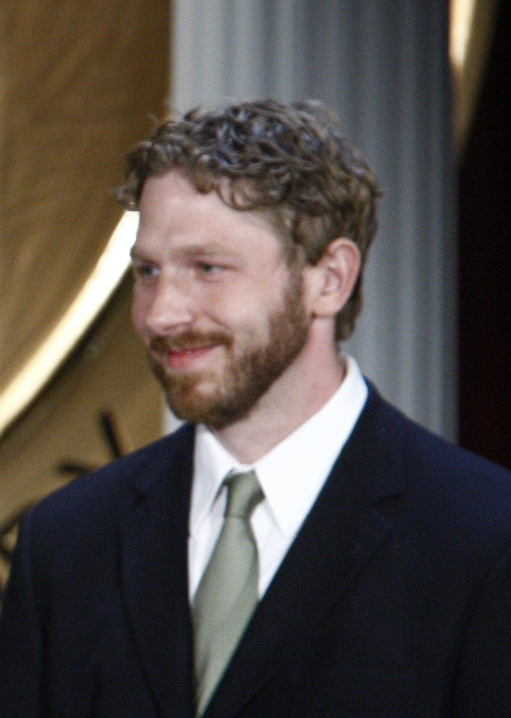 PHOTO CREDIT: ANDERS KRUSBERG / PEABODY AWARDS Bryan Konietzko, Michael Dante DiMartino and Aaron Ehasz 69th Annual Peabody Awards Luncheon Waldorf=Astoria Hotel New York, NY USA May 17, 2010